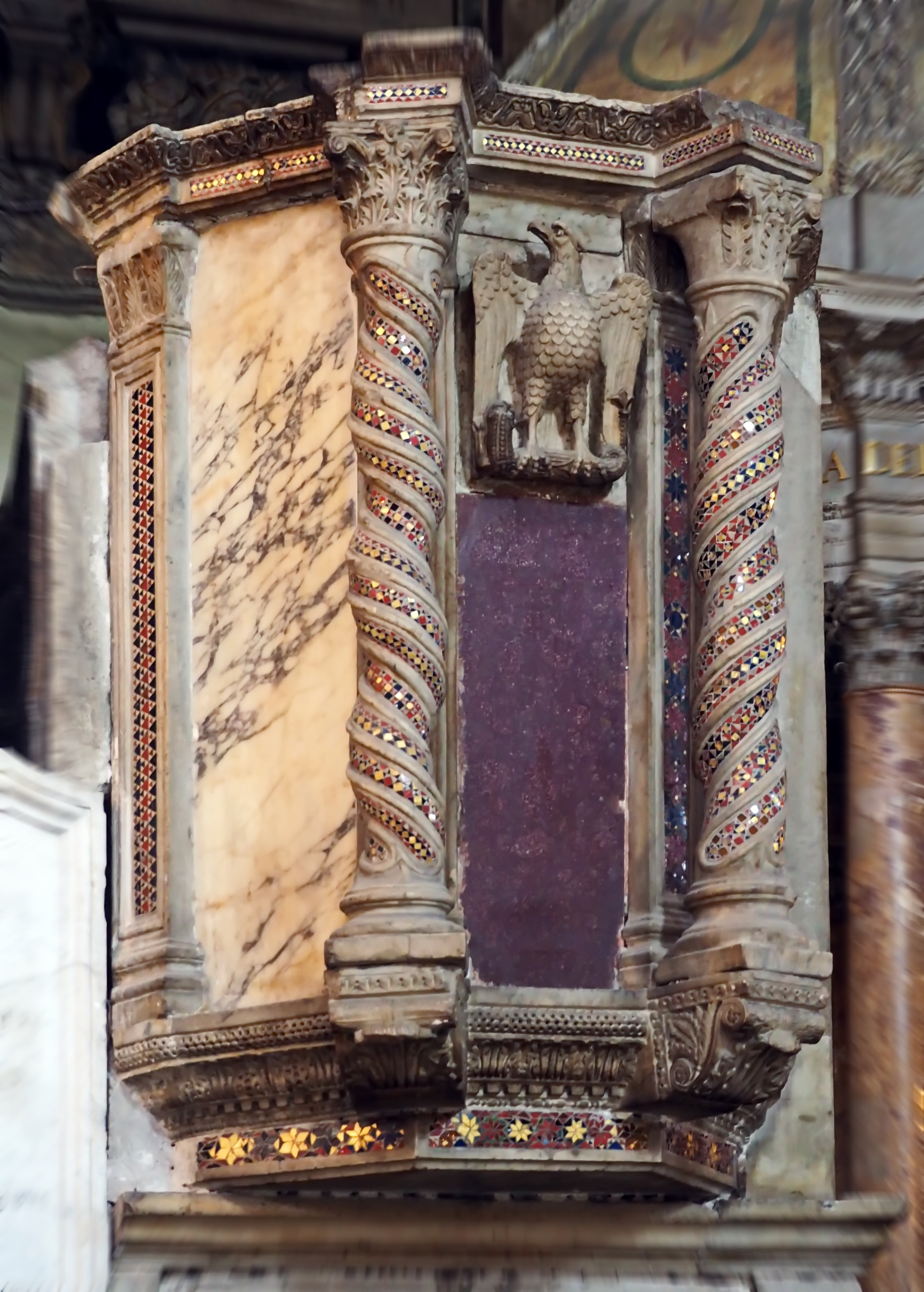 Santa Maria in Aracoeli (Rome), Transept, Ambo